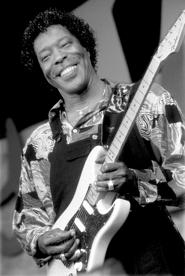 Buddy Guy performing at Monterey Jazz Festival 1992. Photo: Brian McMillen /